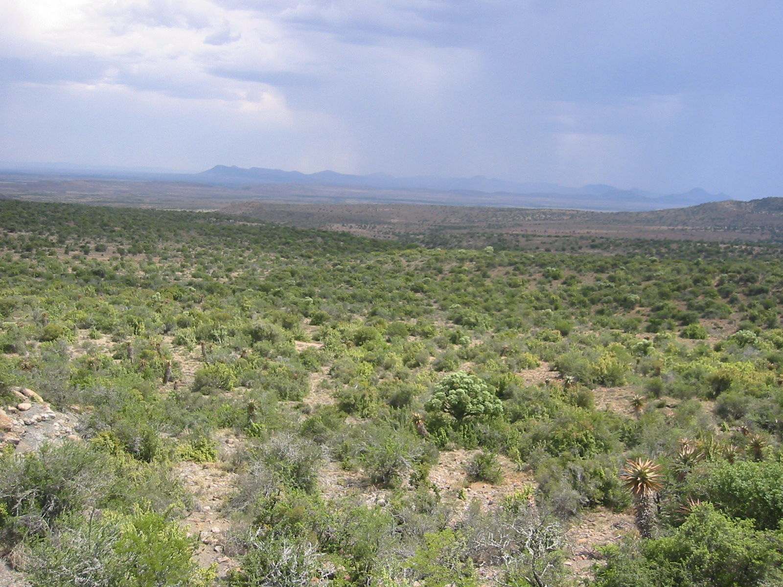 Overlooking the Karoo National Park.